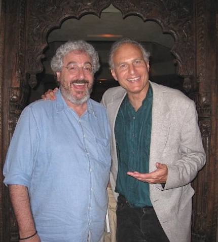 Warrior Films' Journey From Zanskar Fundraiser Primitive on 6-29-09. Warrior Films creates compelling documentaries and transformational stories about warriors of the spirit on journeys of the soul. ©2016 Warrior Films